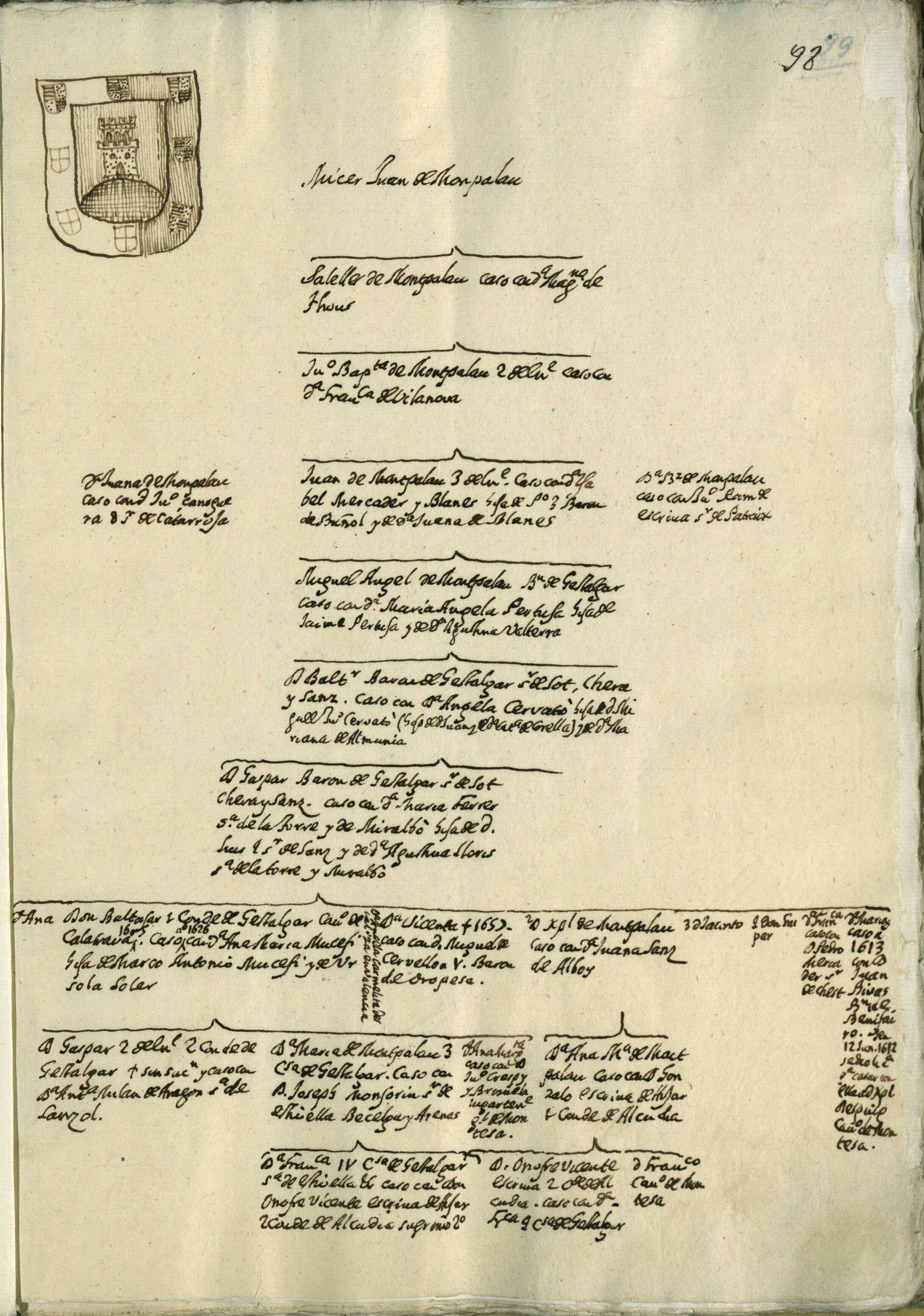 Hand-written from the 17th century with the genealogy of Counts of Xestalgar, valencian noble lineage